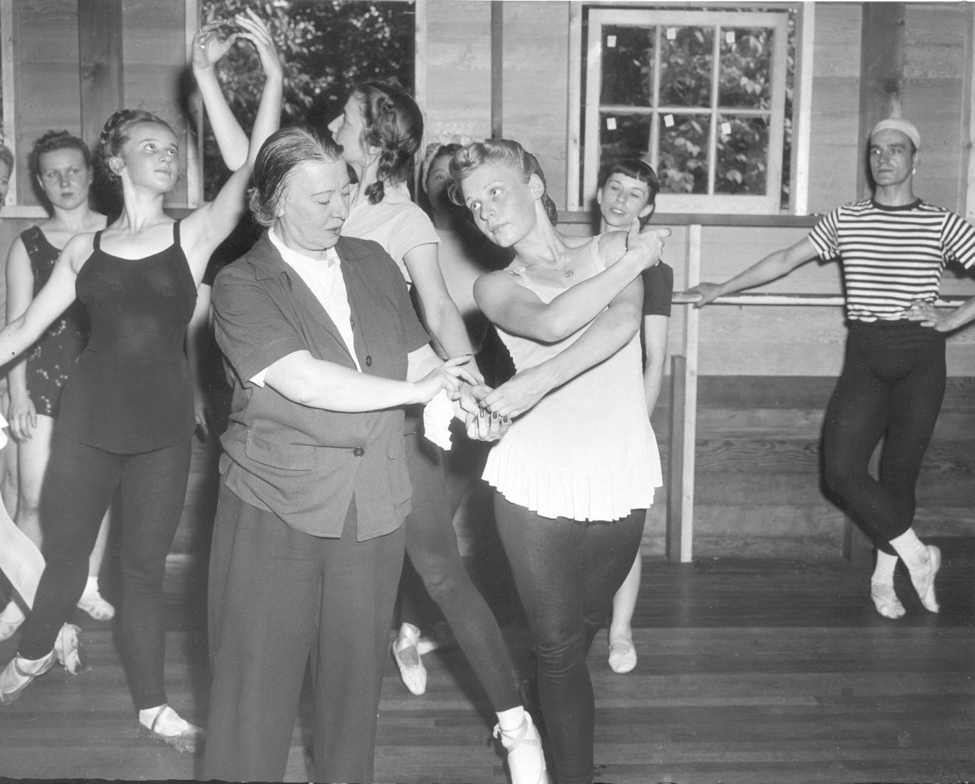 Choreographer Bronislava Nijinska works with Ann Hutchinson in preparation for a concert of Nijinska's ballets at the Jacob's Pillow Dance Festival in September 1942